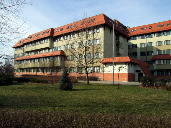 The hospital "Réthy Pál" in Békéscsaba